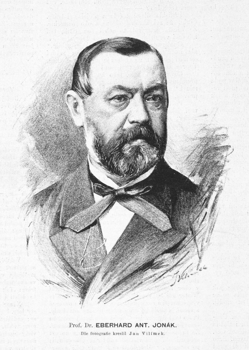 Portrait of Eberhard Antonín Jonák (1820-1879), Czech lawyer, economist, politician and university professor.